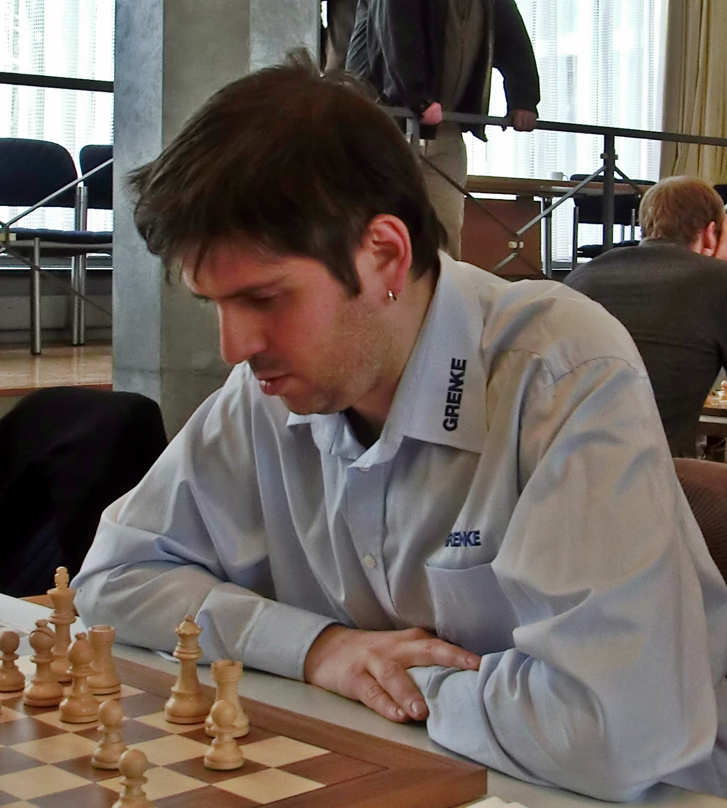 Peter Svidler, chess grandmaster from Russia